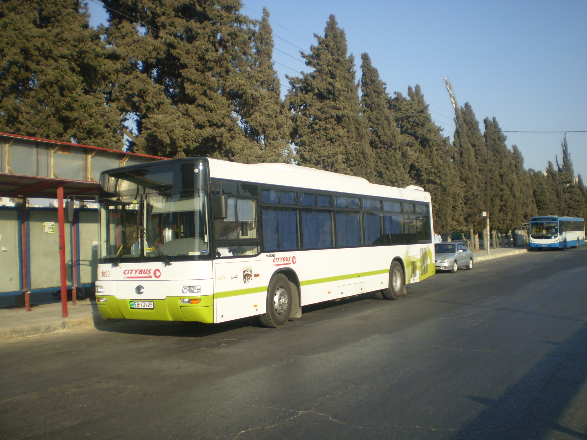 Modern Yutong city bus (reg. 58-10125; #1020) in Amman, Jordan. Citybus (Amman?) operator or his brand.